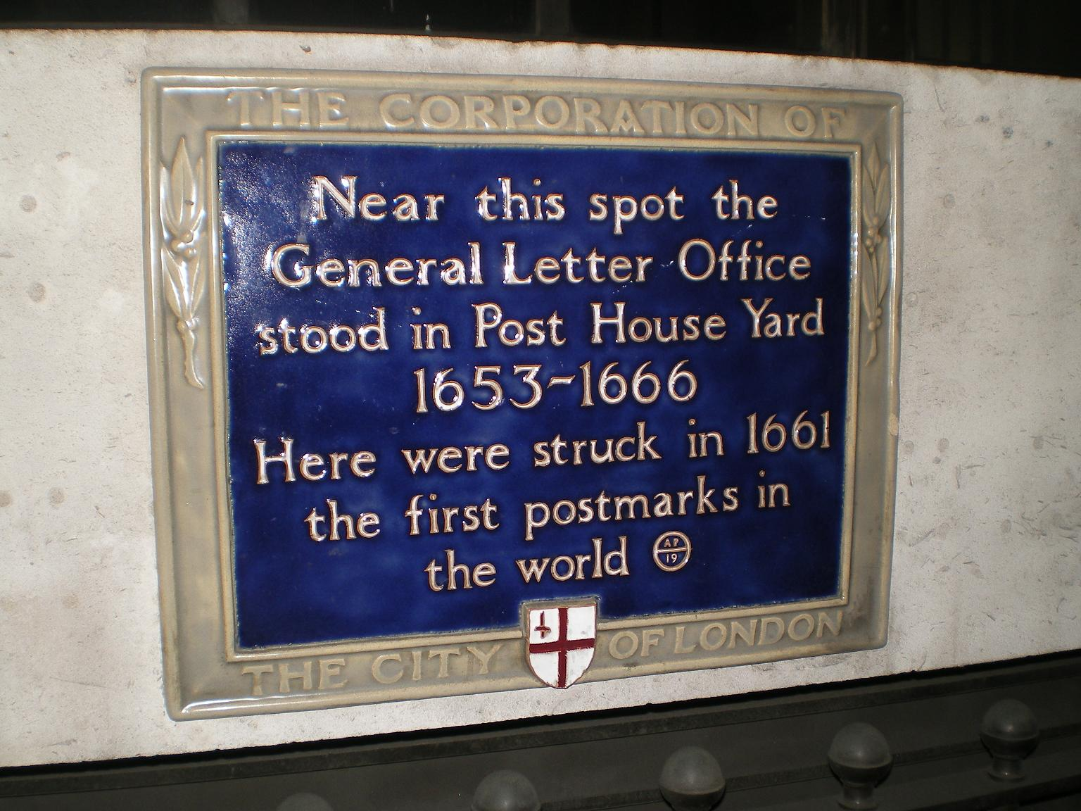 General Letter Office (1653-1666) site in the City of London, England